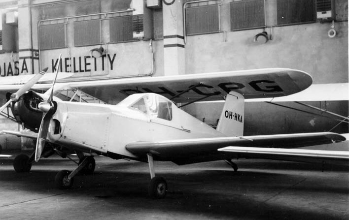 OH-HKA at Malmi in August 1962. The plane is the only Finnish world record aircraft. 2844 km non-stop on 10 July 1957.